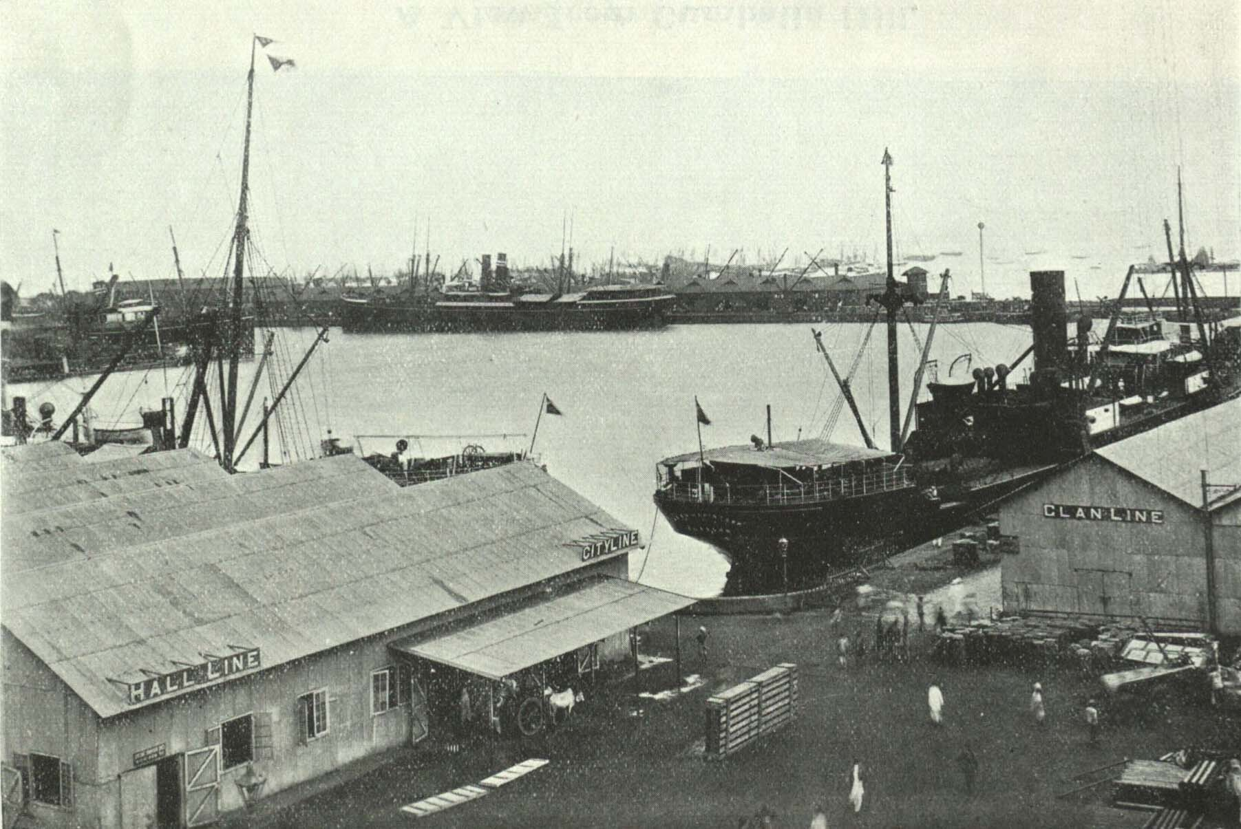 The first stone of this Dock was laid by King-Emperor, November 11th, 1875.